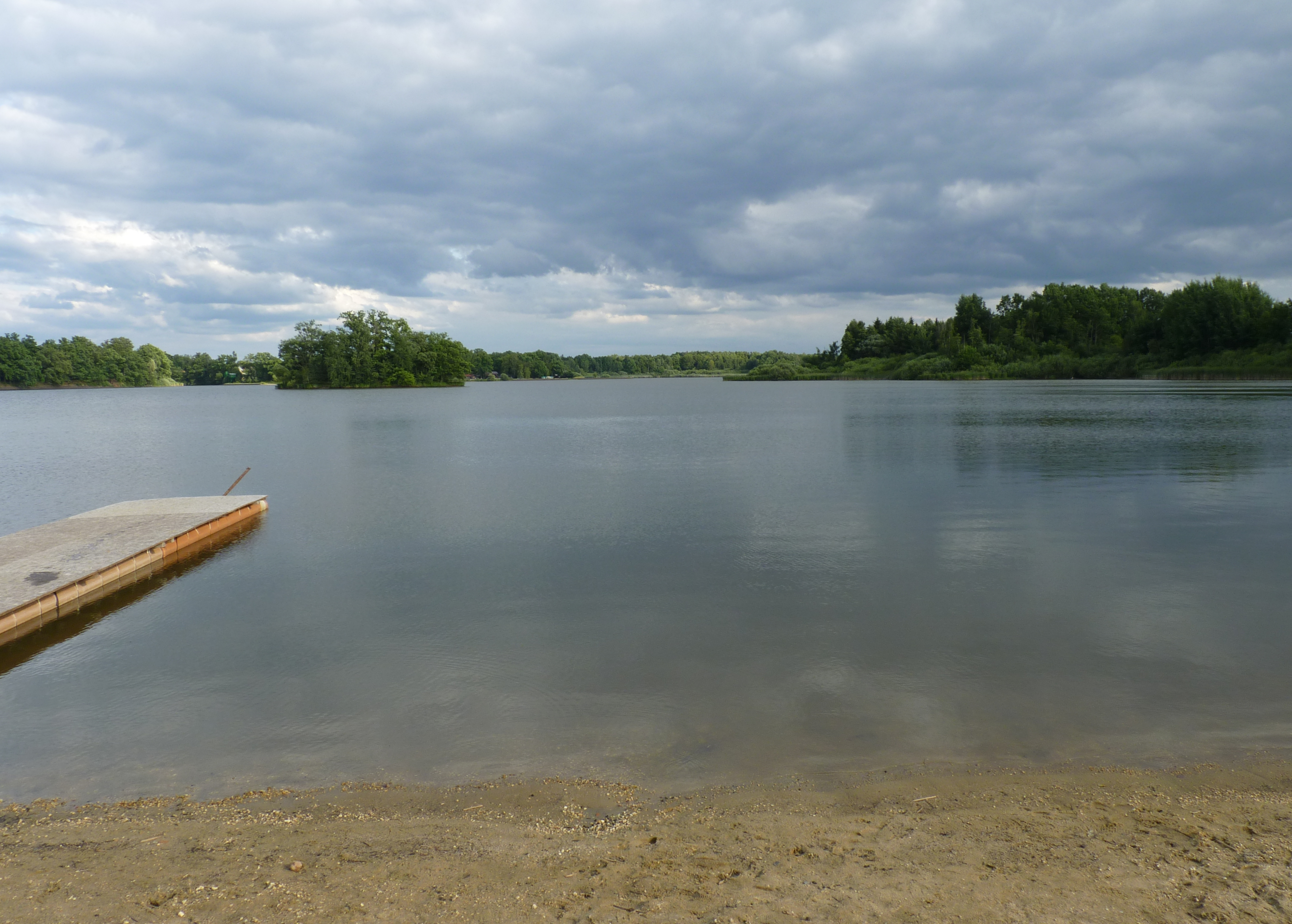 Opatovický pond. Jindřichův Hradec District, South Bohemian Region, Czech Republic